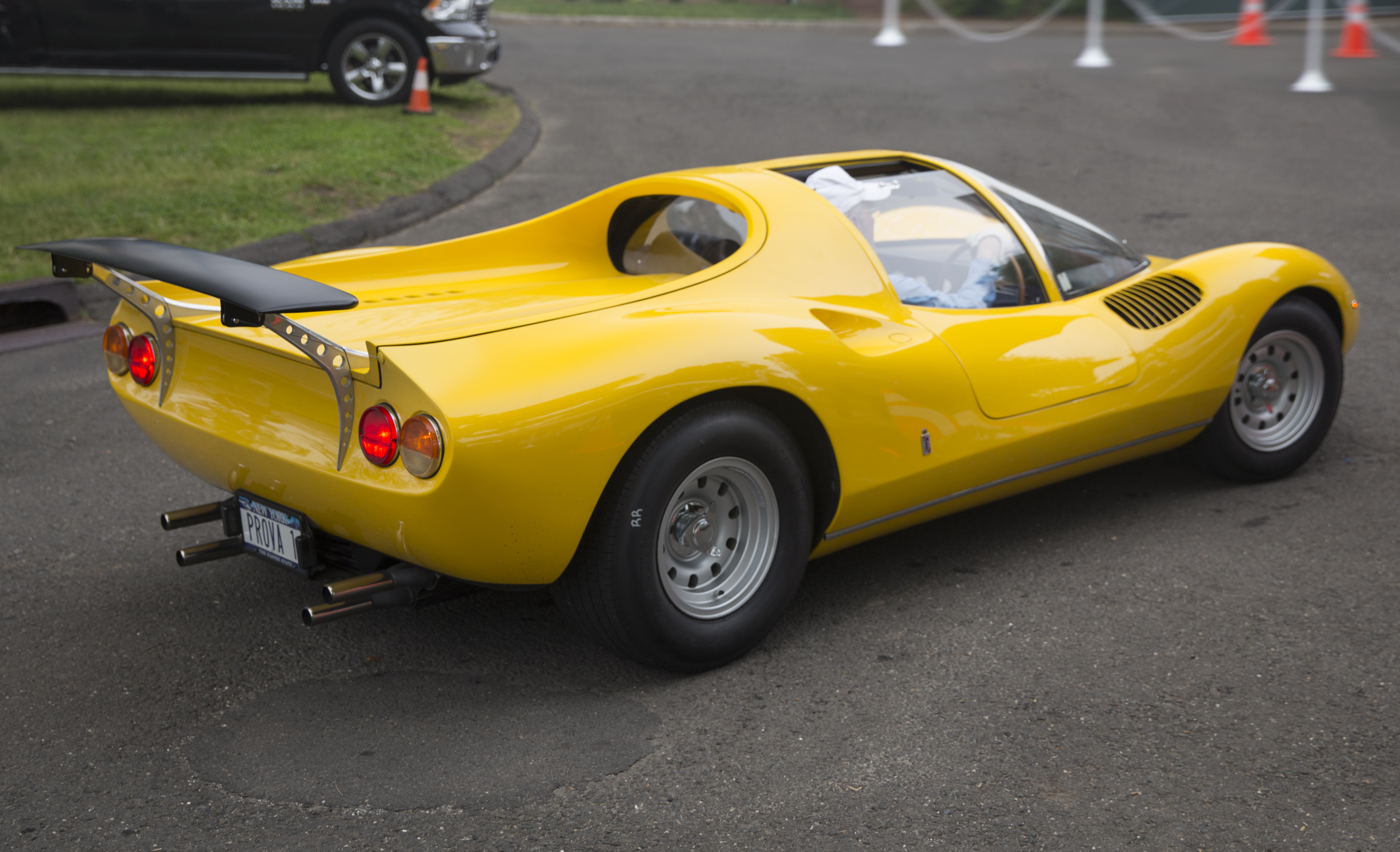 The stunning little Dino 206 Competizione Prototipo entering the 2019 Greenwich Concours d'Elegance. The driver was kind enough to honk the horn, which made a delightful squeaky little parping sound.